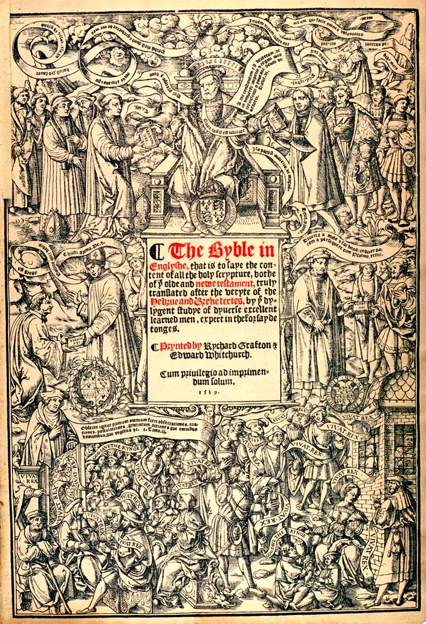 Title page from the Great Bible published by Grafton and Whitchurch in 1539. It depicts an enthroned Henry VIII receiving the Word of God and bestowing it upon his bishops and archbishops (top third), who in turn deliver it to the priests (middle third). Finally, the laity hear the Word and loyally recite, "Vivat Rex" and "God save the kynge" (bottom third). The Byble in Englyſhe, that is to ſaye the content of all the holy ſcrypture, bothe of þe olde and newe teſtament, truly tranſlated after the veryte of the Hebrue and Greke textes, by þe dylygent ſtudye of dyuerſe excellent learned men, expert in the forſayde tonges. Prynted by Rychard Grafton & Edward Whitchurch. Cum priuilegio ad imprimendum ſolum. 1539.